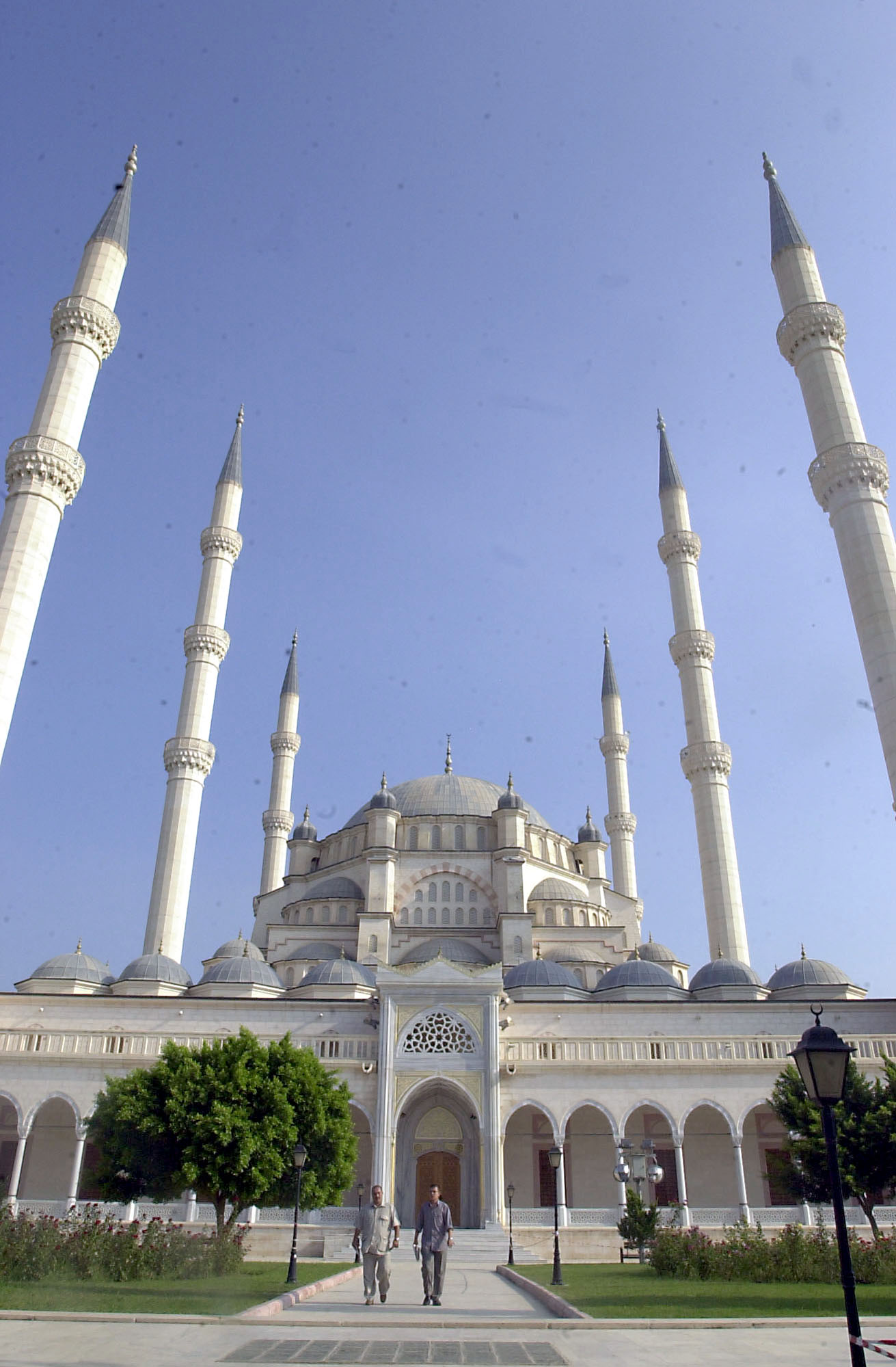 The Sabancı Mosque in Adana, Turkey